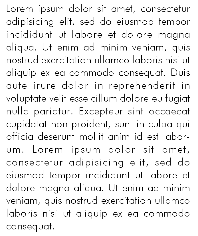 Lorem Ipsum in Futura by Paul Renner